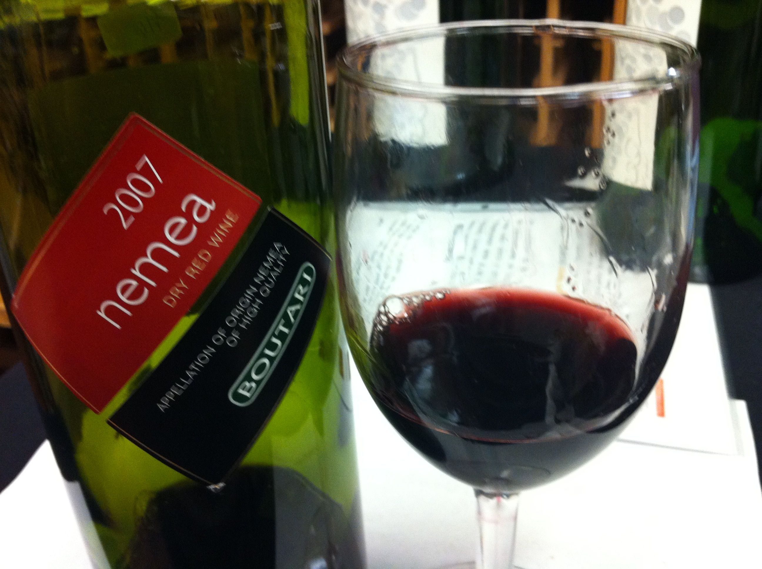 Red Greek wine from the Nemea region of Peloponnese made from the Agiorgtiko grape.